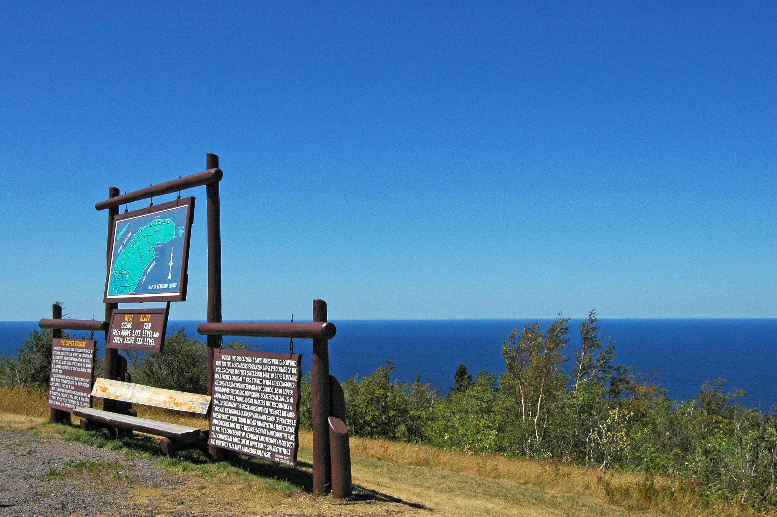 Photograph of Lake Superior from Brockway Mountain in the Keweenaw Peninsula of Michigan.